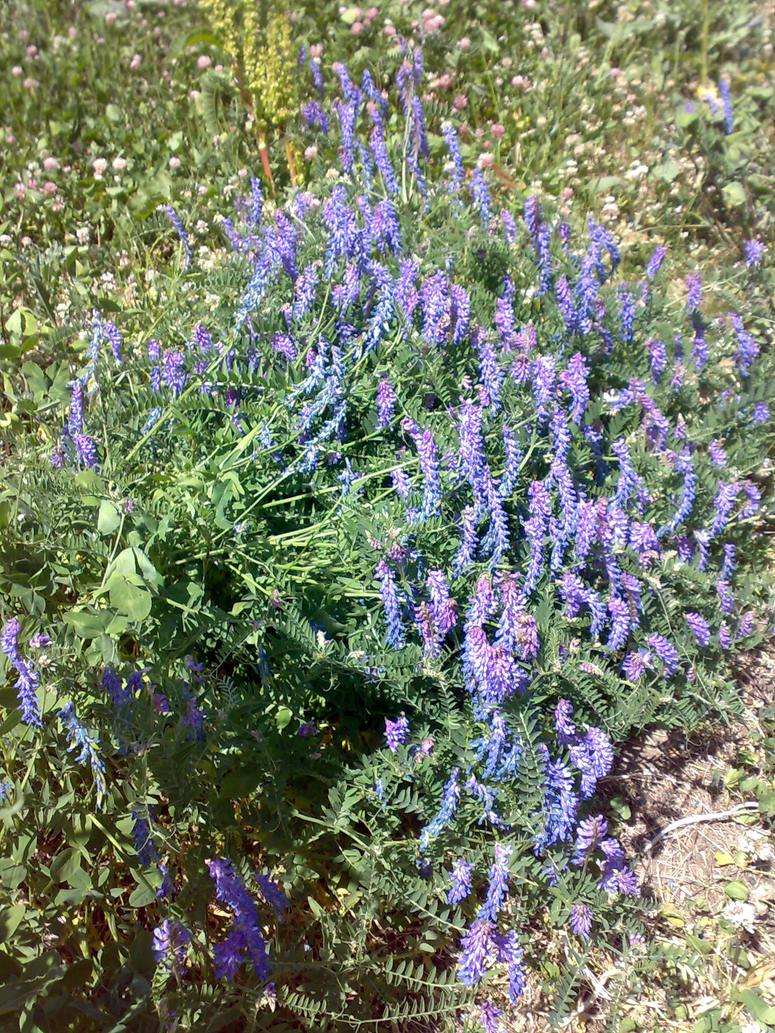 Vicia cracca